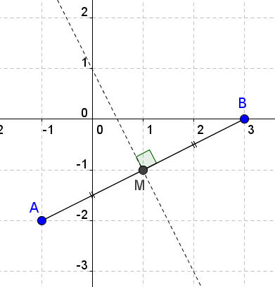 Segment axis